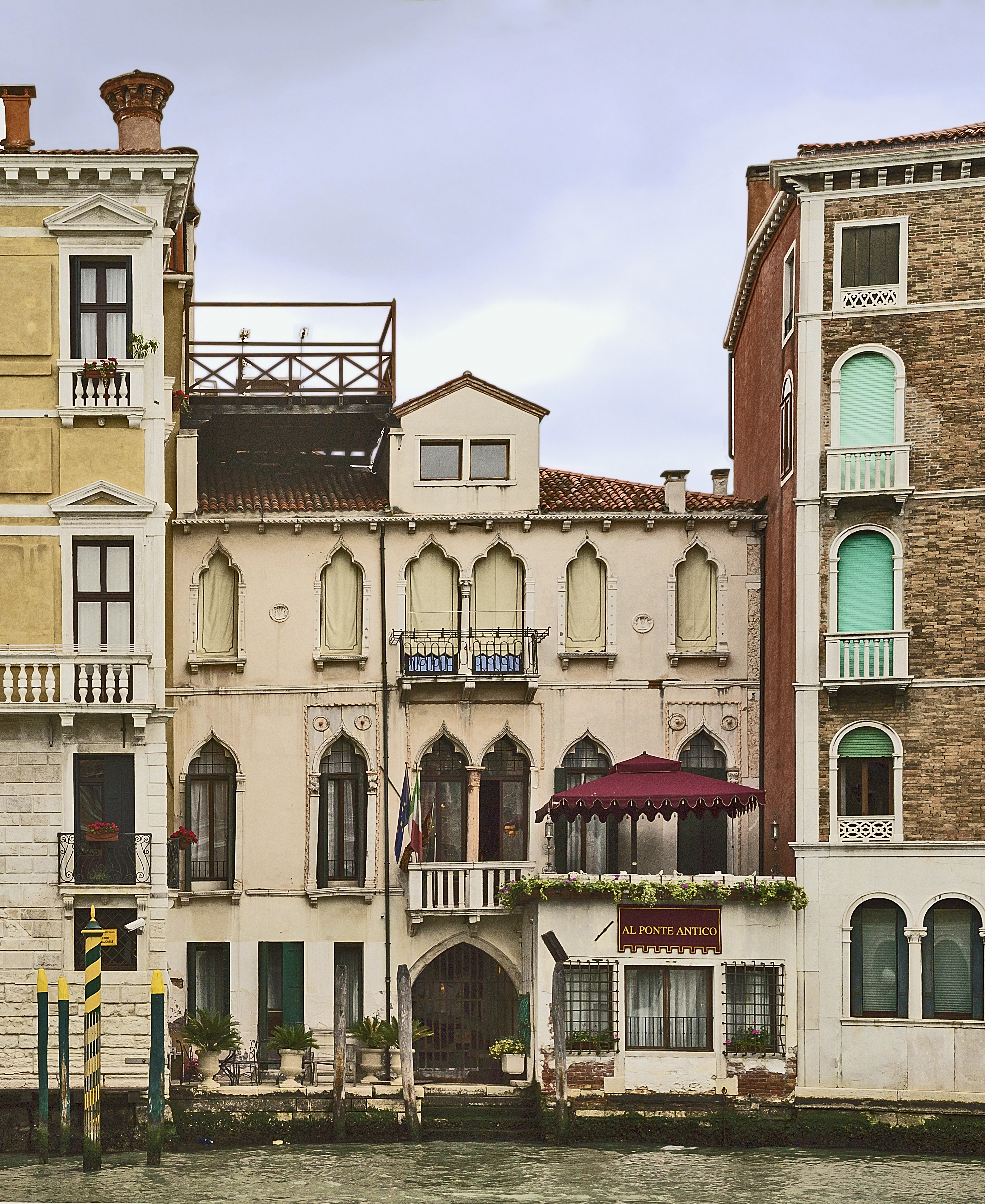 Palazzo Perducci Venice. Facade on Grand Canal.